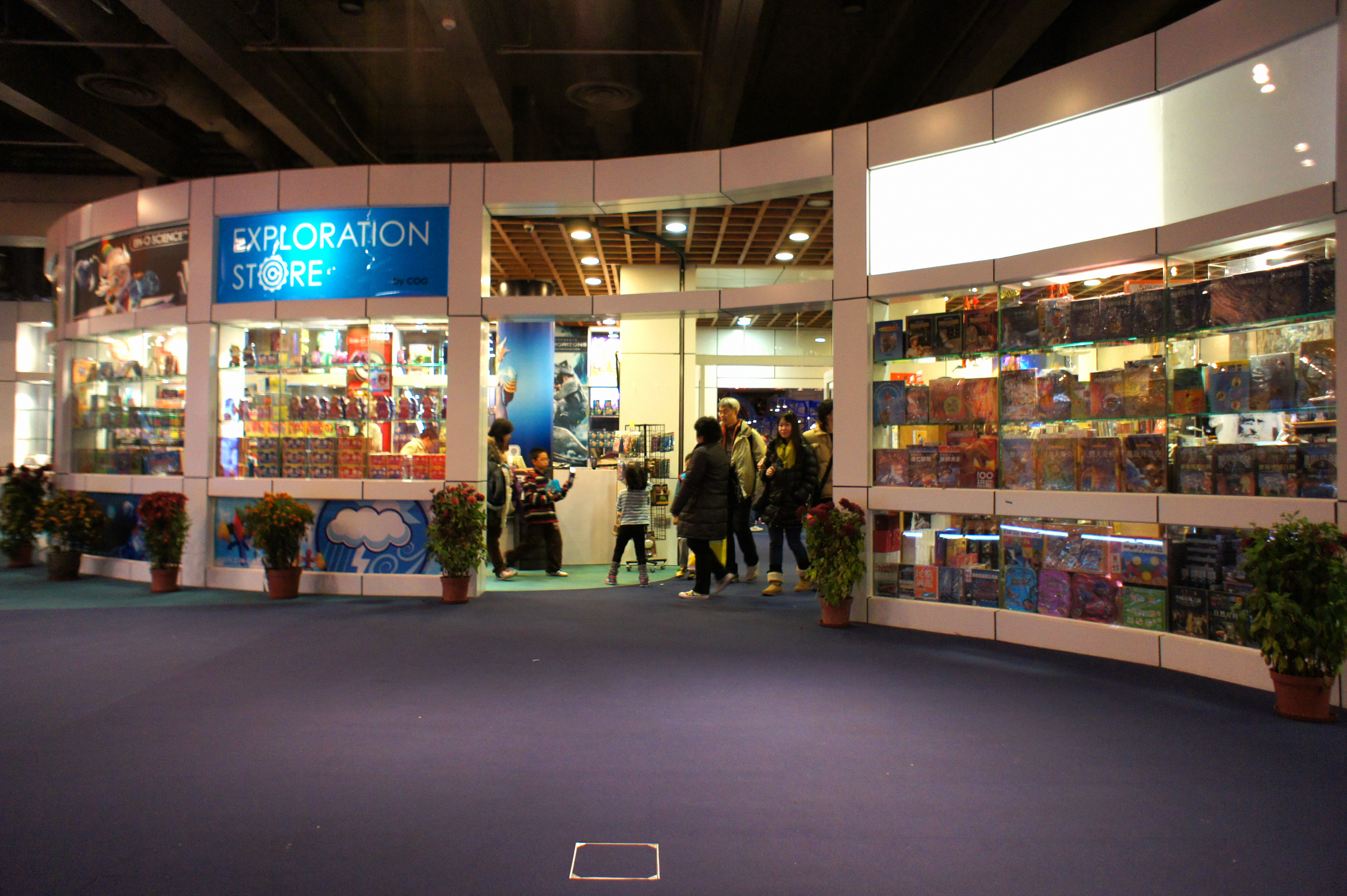 Hong Kong Science Museum, Gift Shop and Bookshop, Tsim Sha Tsui East, Kowloon, Hong Kong.